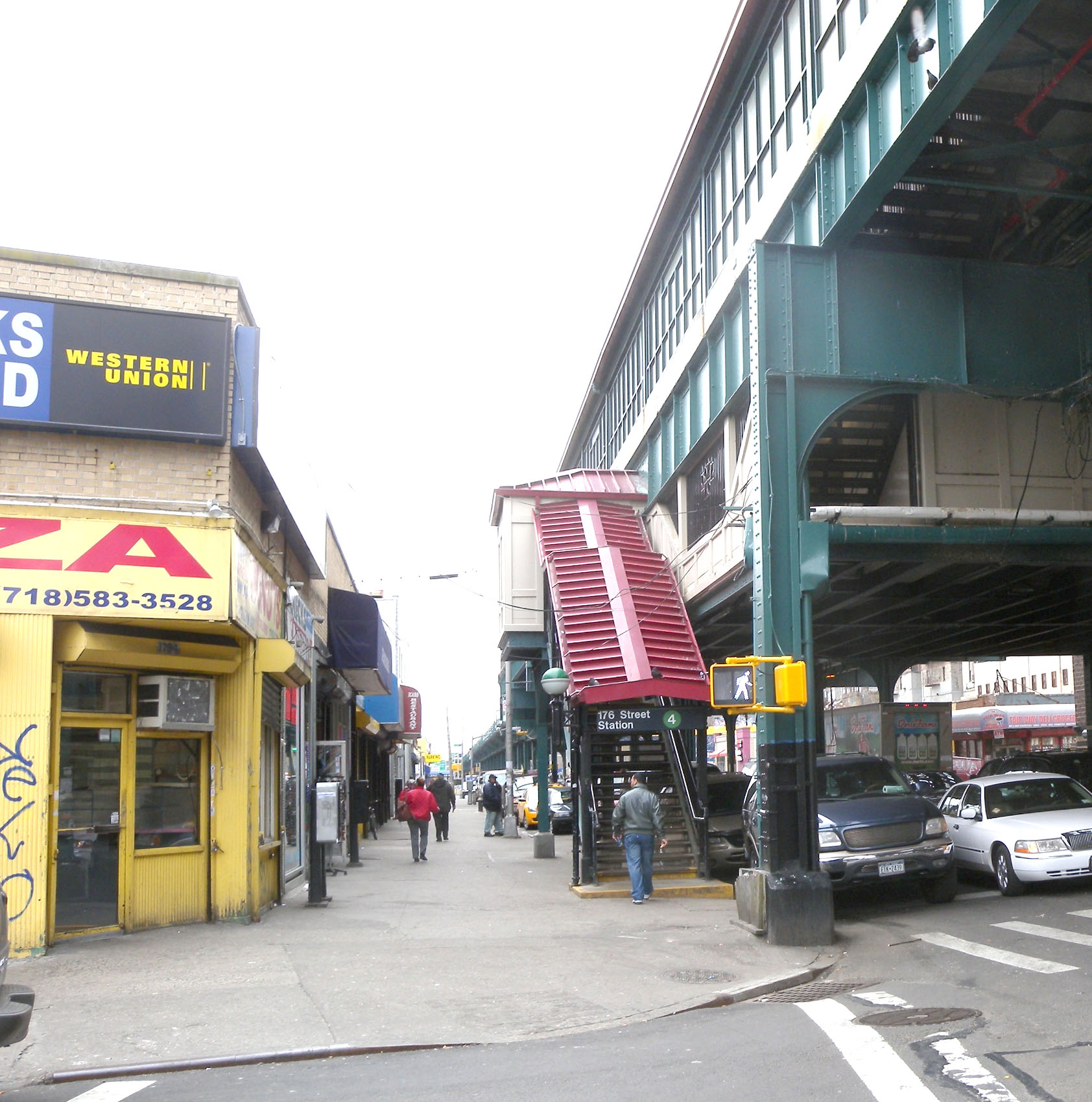 Looking south at street stair of en:176th Street (IRT Jerome Avenue Line) on a cloudy midday.